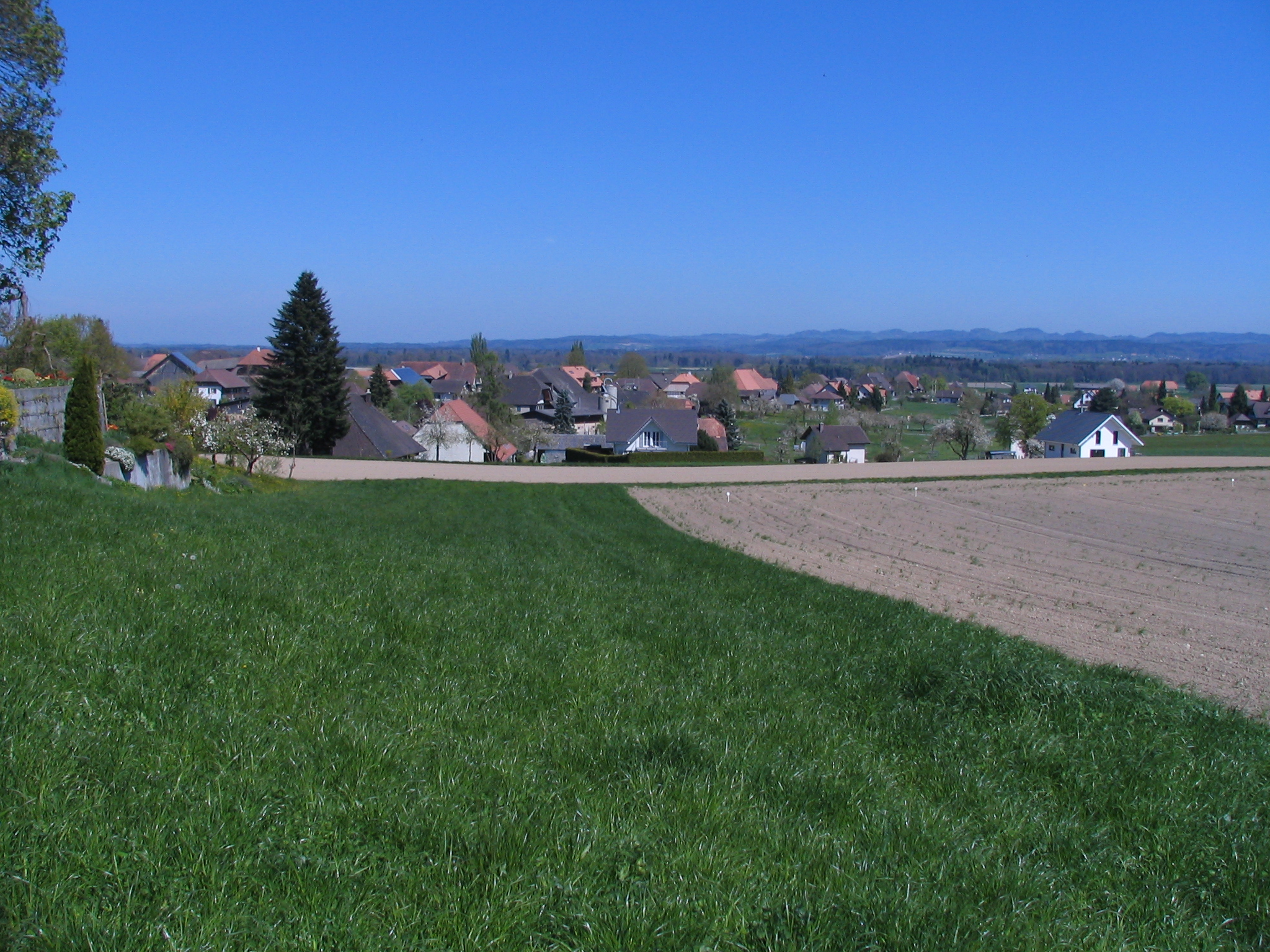 Büren zum Hof (Canton of Bern, Switzerland): seen from outside the village